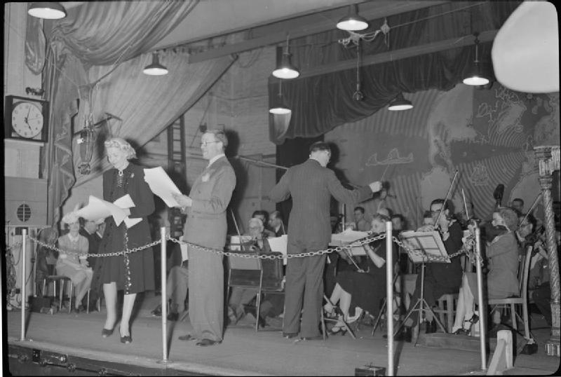 The Laugh!- the Recording of the Radio Comedy 'itma', London, England, UK, 1945 Tommy Handley (centre) introduces new singer Ann Rich to the 'It's That Man Again' audience, as Charlie Shadwell conducts the BBC Variety Orchestra behind them.